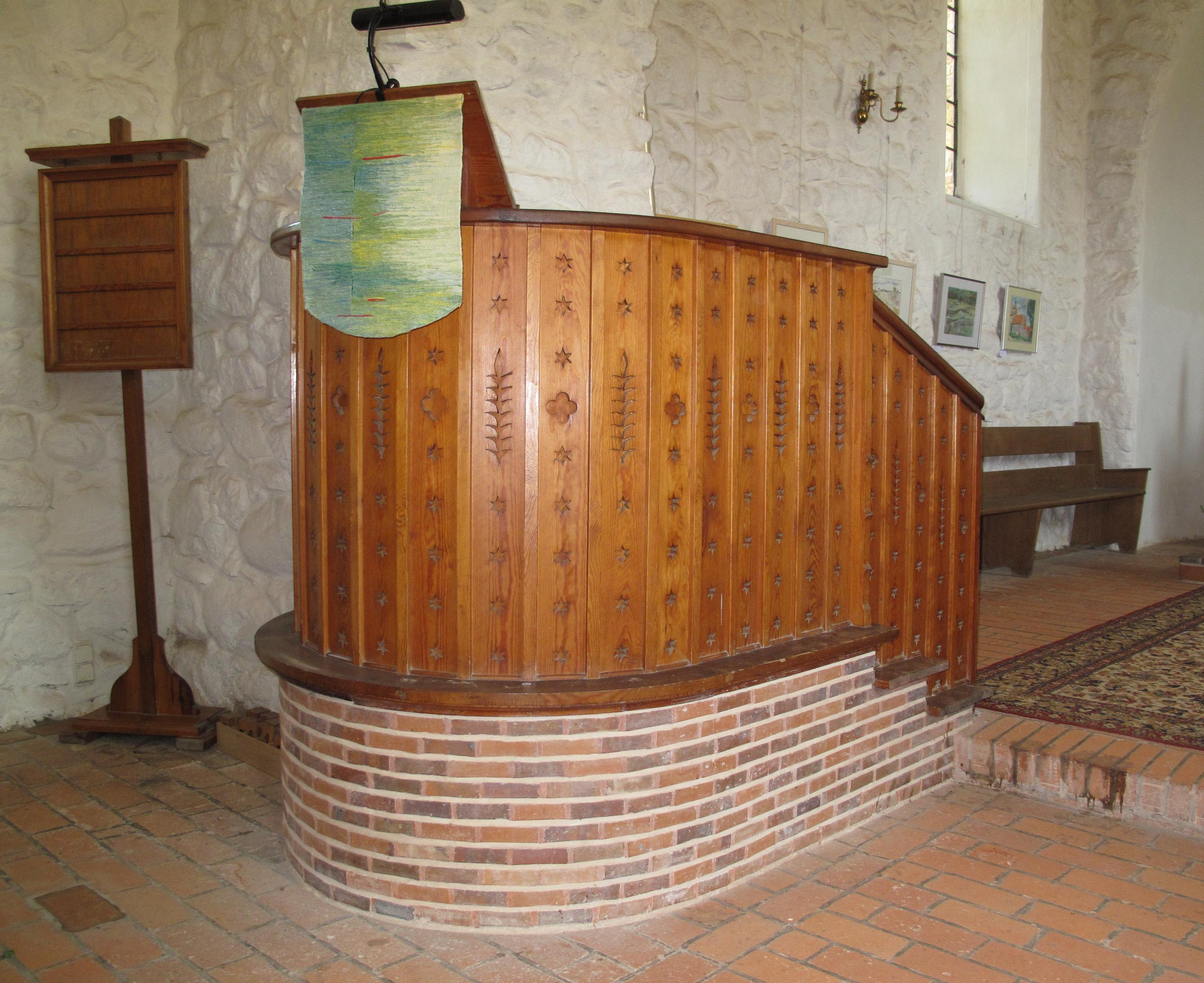 Pulpit of the Village church Wildenbruch. Listed Fieldstone church, built in the 13th century. The timber framed addition on the center of the west tower was built in 1737 and after modifications in the meantime1992 reconstructed according to the plans from 1737. Contrary to many different depictions it is no Fortified church (german: Wehrkirche). Wildenbruch is a part of Michendorf in the district Potsdam-Mittelmark, state Brandenburg, Germany.